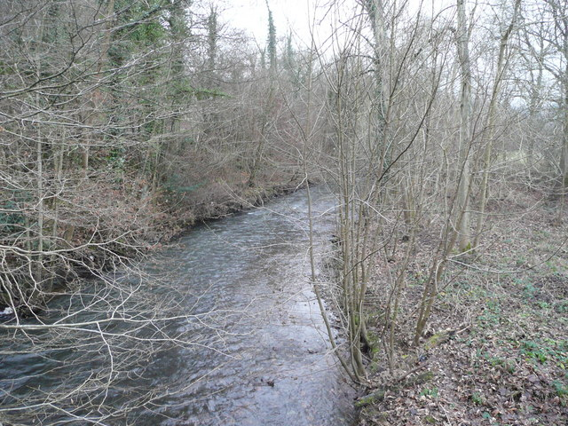 River Onny - downstream View south from Horderley Bridge.